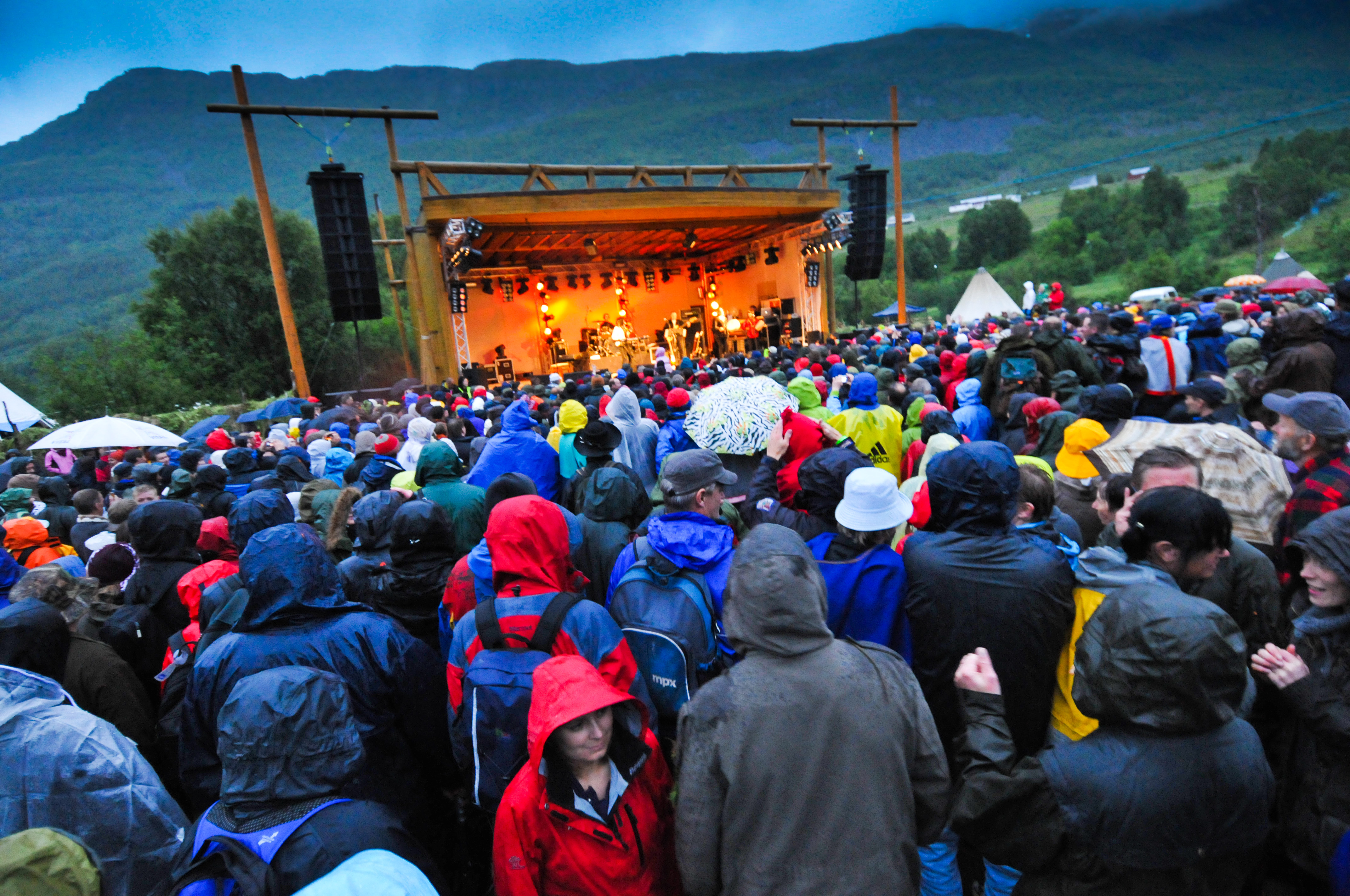 Buffy Sainte-Marie on Riddu Riddu. Photo: Marius Fiskum